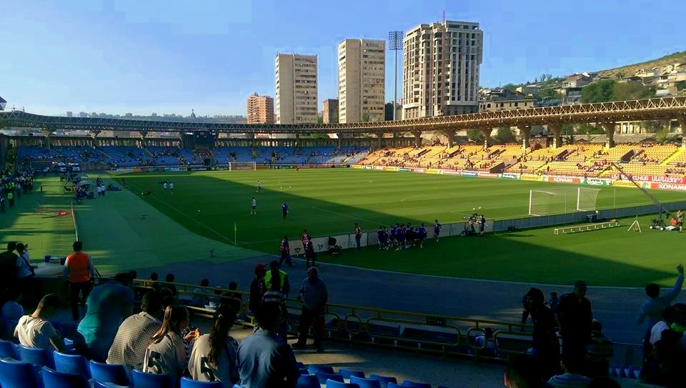 Armenia vs Portugal, 13 June 2015, V. Sargsyan Rep. Stad. Yerevan